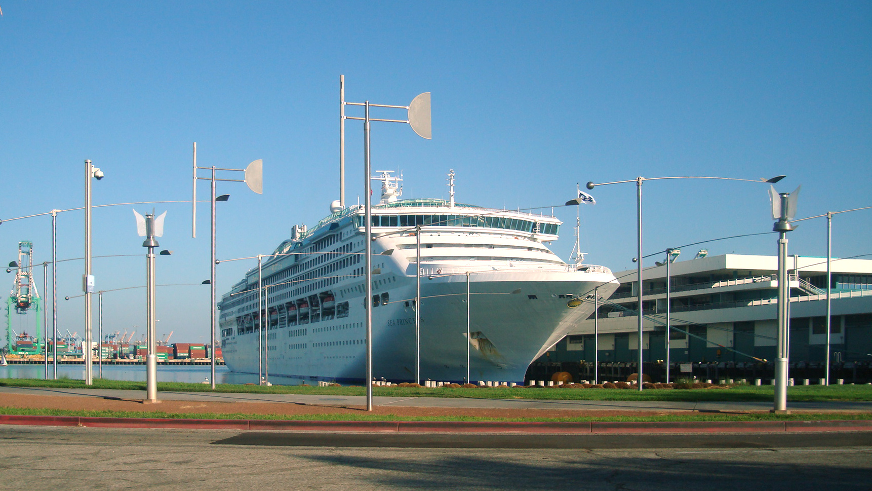 Sea Princess Aug. 10, 2013